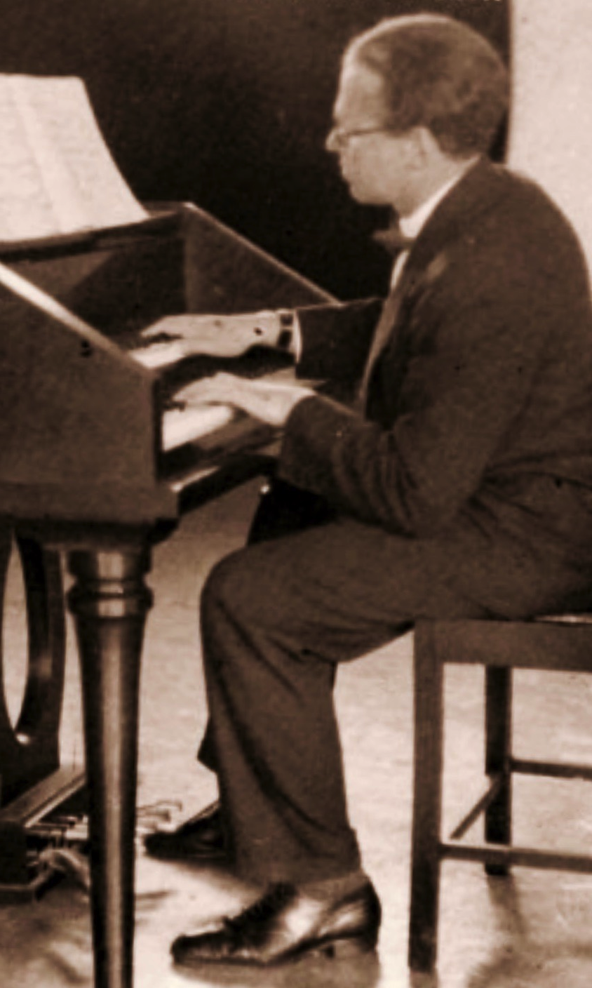 Eduard Zuckmayer (1890–1972) at his cembalo at progressive boarding school Schule am Meer (= School by the Sea) on Juist Island, East Frisia, Germany